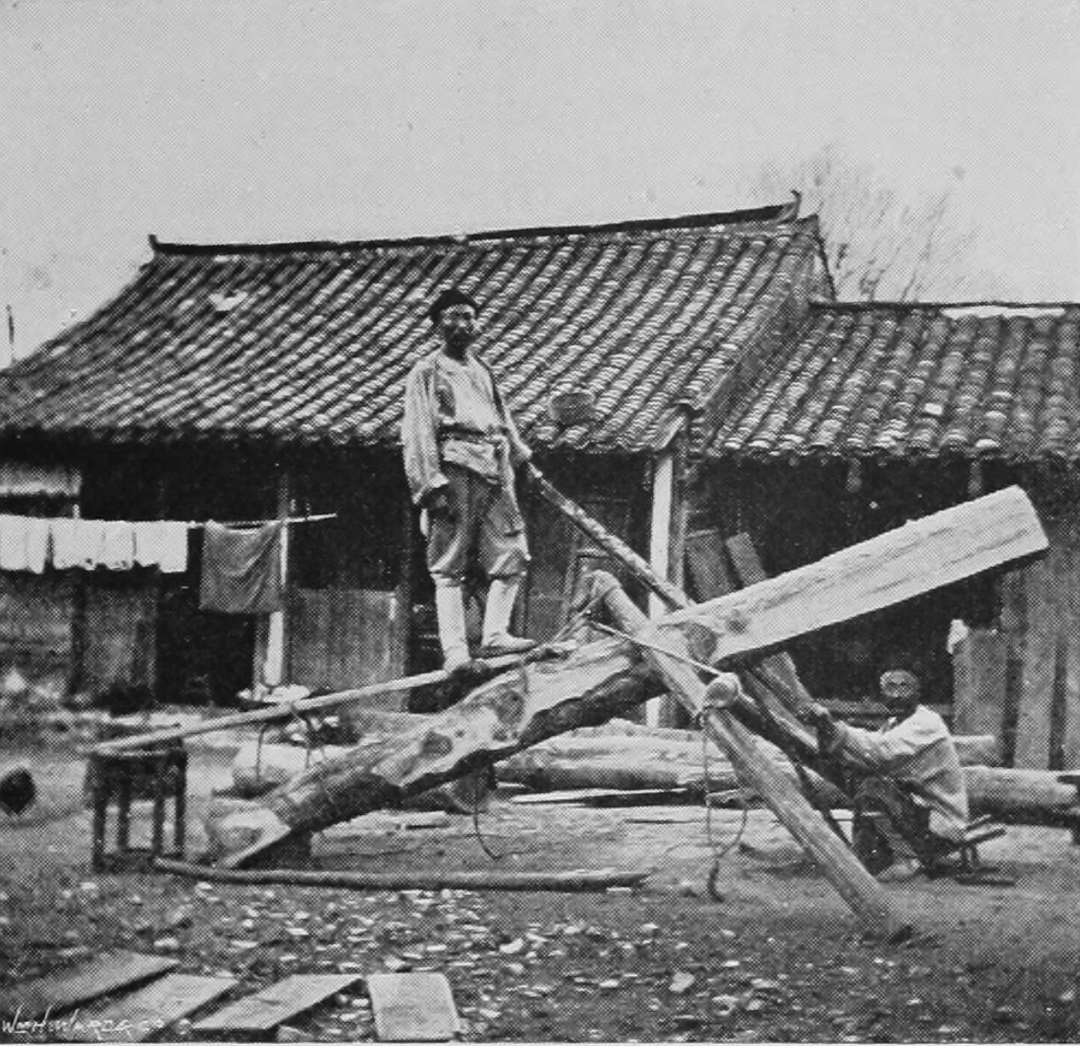 photo from Through China with a camera